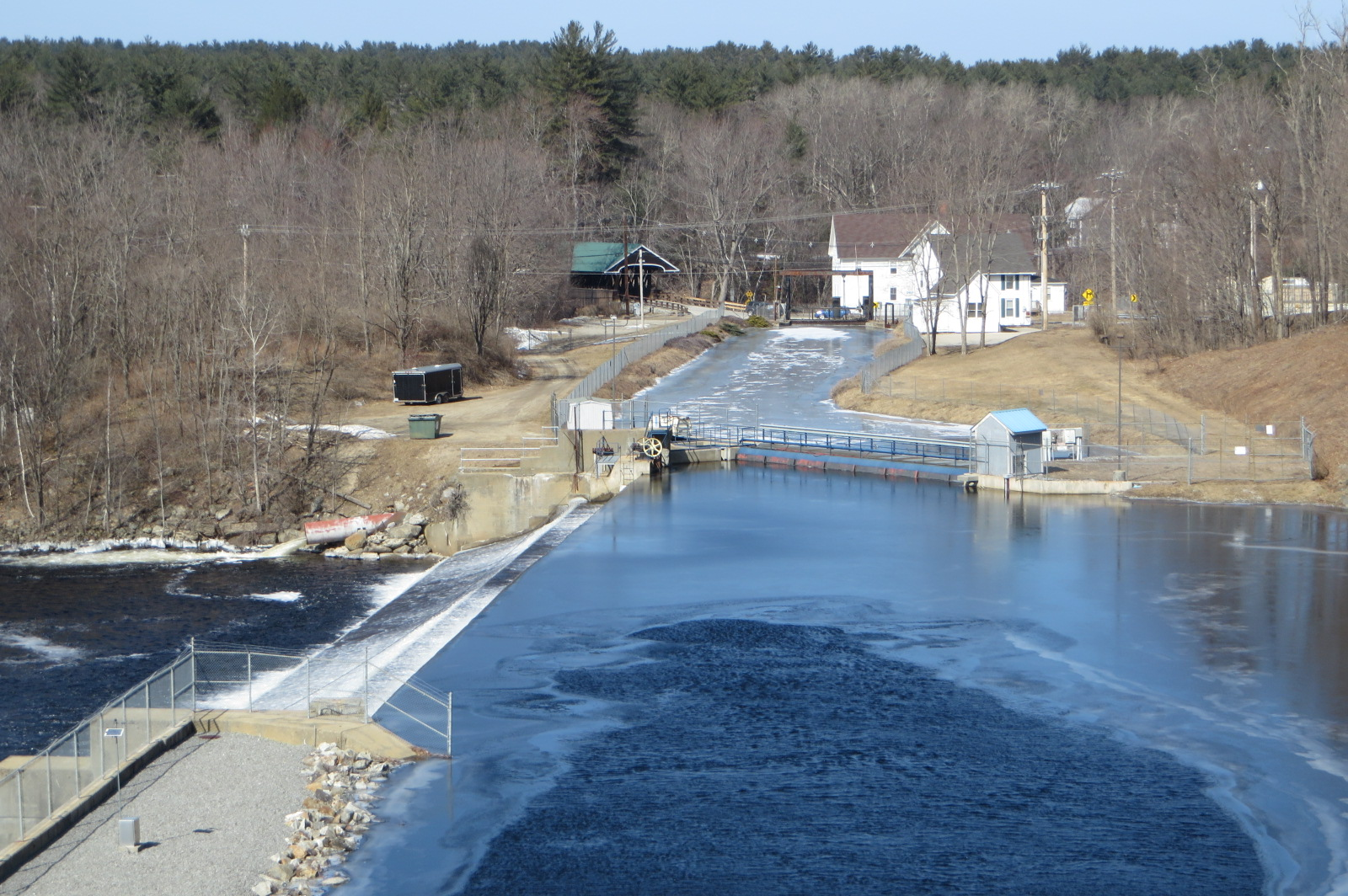 View of West Hopkinton, New Hampshire from Hopkinton Dam on the Contoocook River